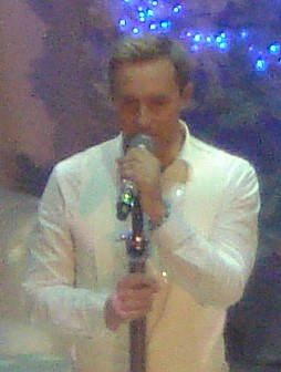 Ian "H" Watkins performing live on the 'Christmas with Steps' tour at the Manchester Apollo on December 3, 2012.